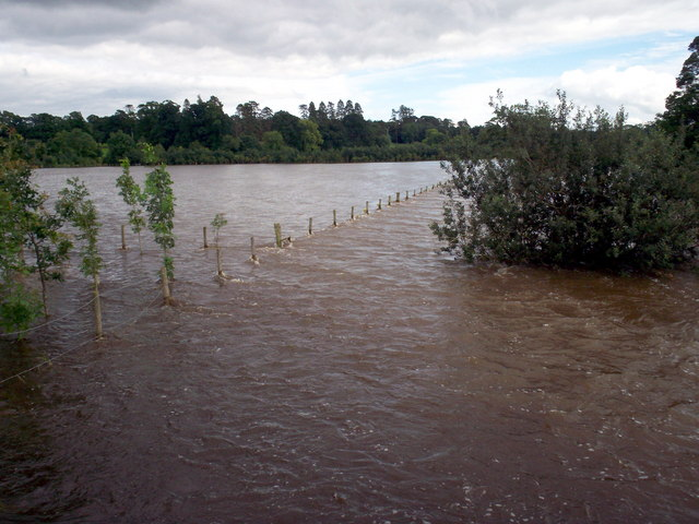 River Bann at Dynes Bridge, Mullahead Road After yesterday's torrential rain, the Bann river overflows and floods the large field beside it. The water swirls forcefully under the bridge towards Portadown and eventually into Lough Neagh.